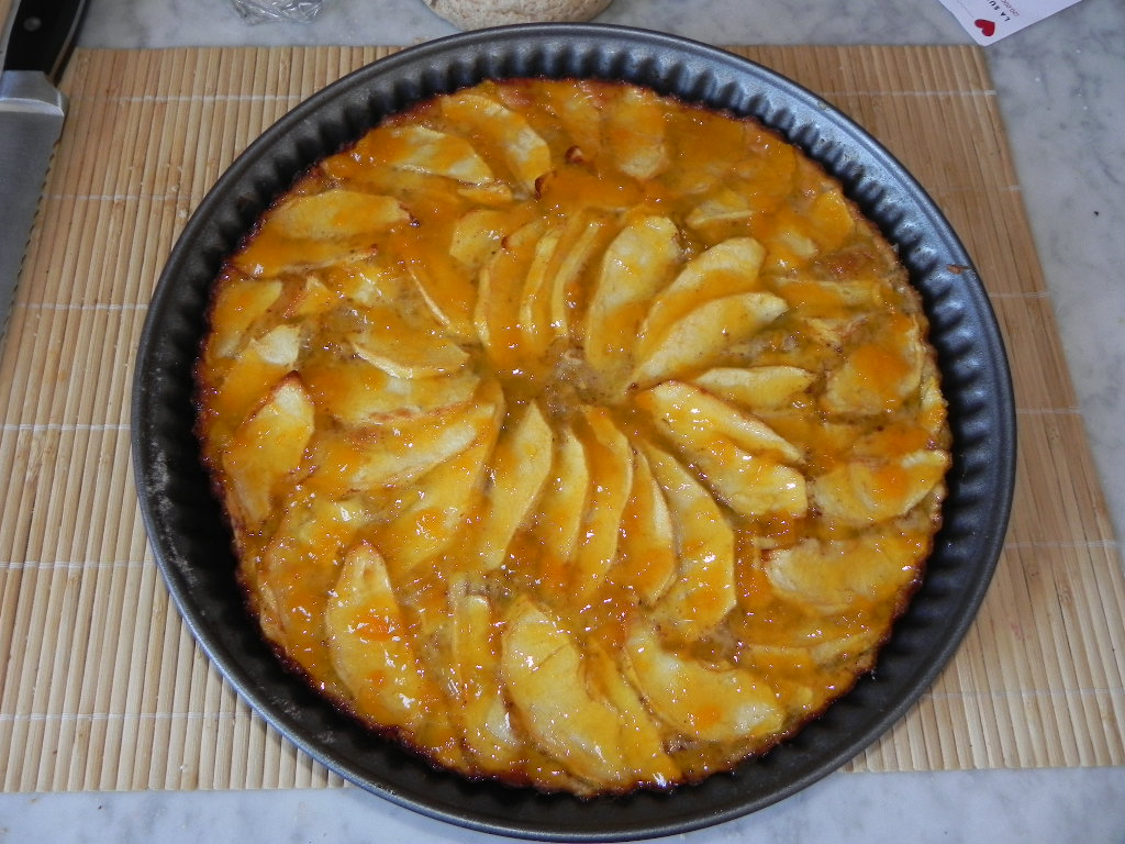 Picture of an apple cake